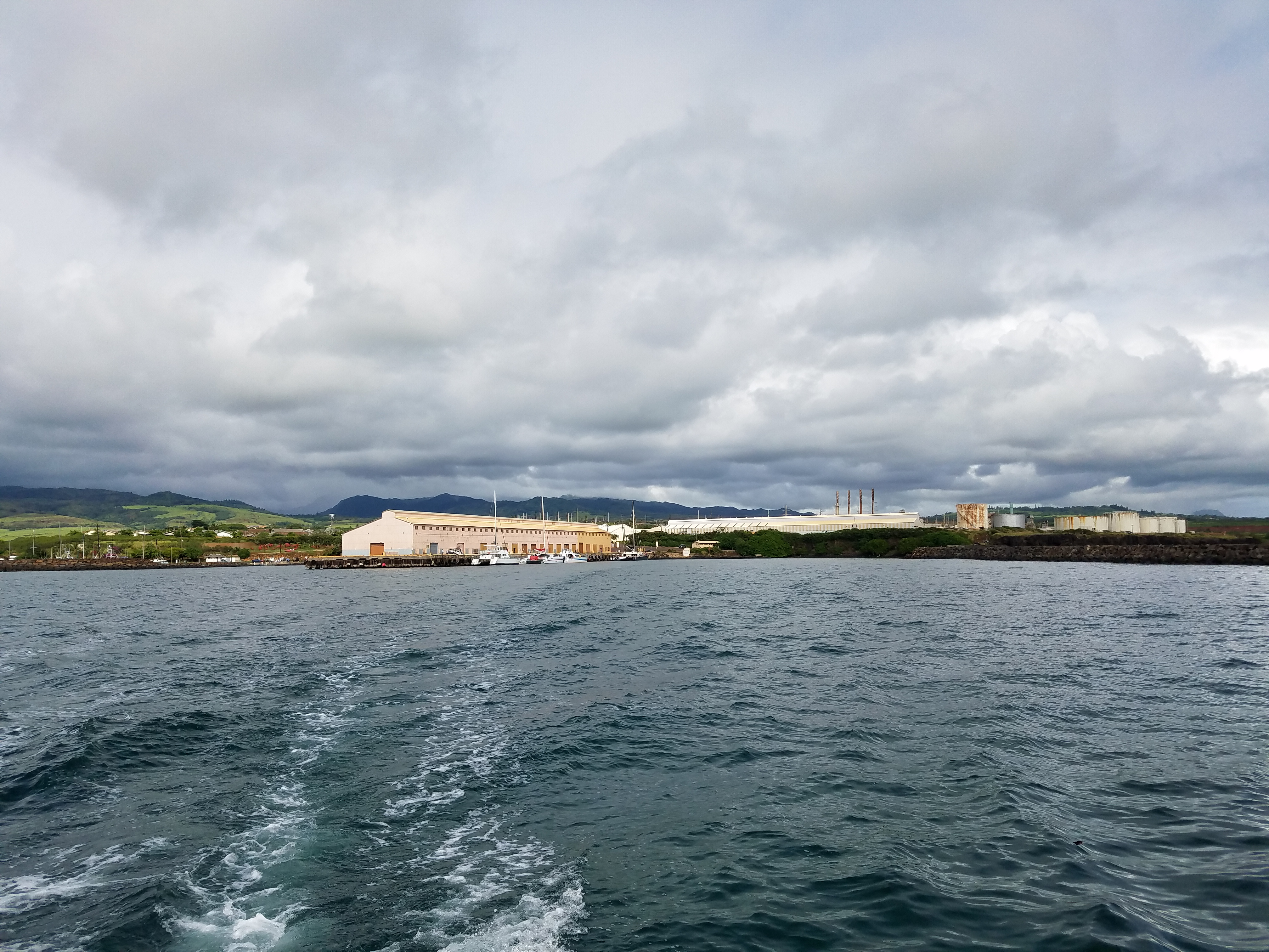 View of the Port Allen area of 'Ele'ele from Hanapepe Bay in Kauai, Hawaii.